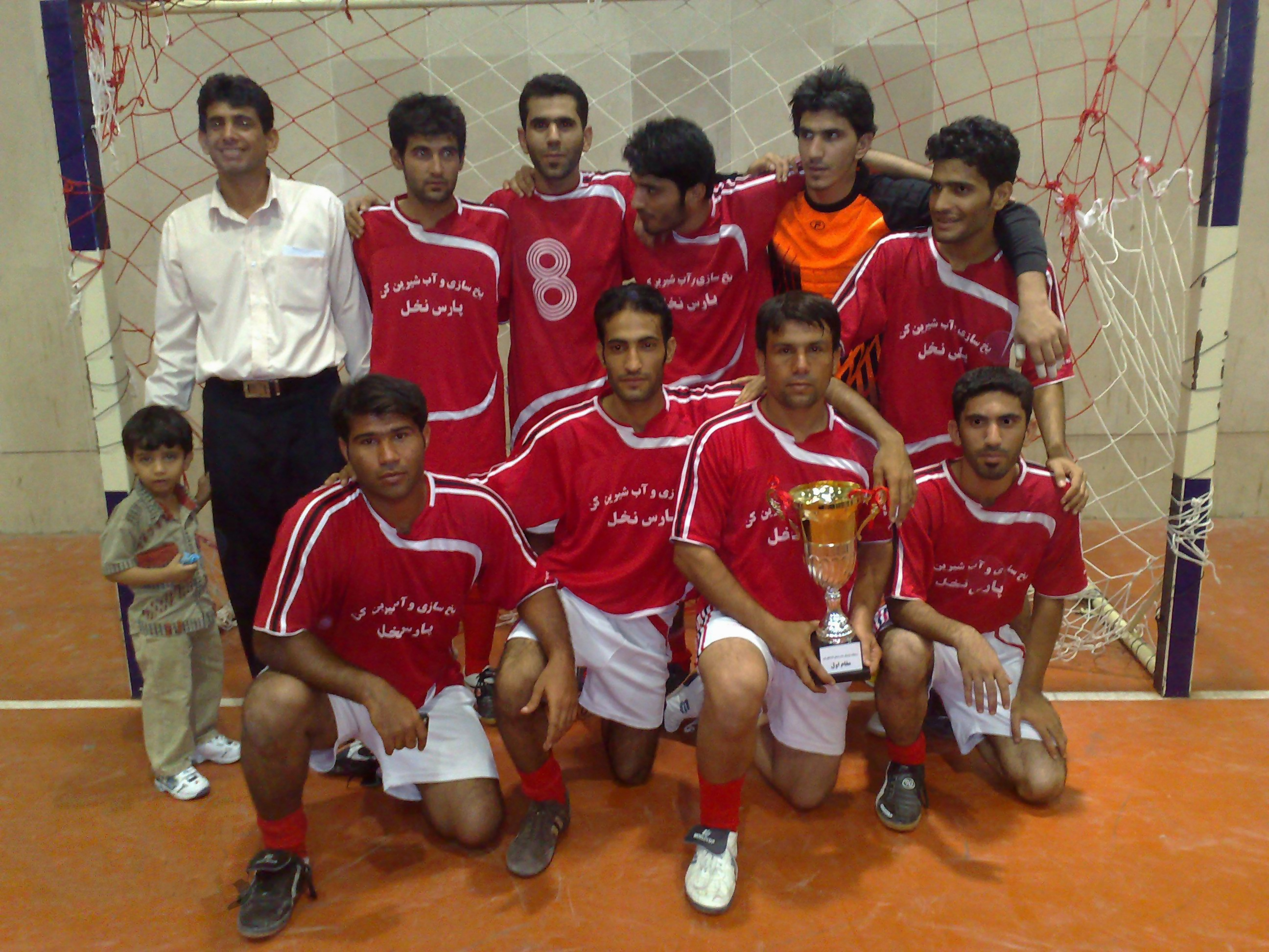 Picture of the Nakhl Taqi Coast association football team taken inside their goal